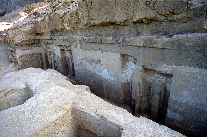 Decorated tomb, Fraser tombs, Egypt